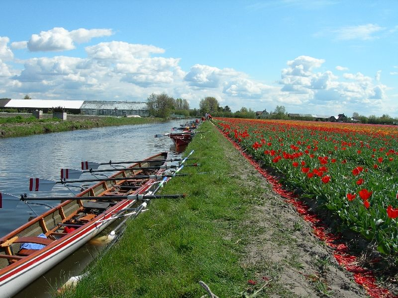 Picture of tulip fields near Hillegom, along the Leidsevaart Canal in April 2007. This is a popular route for water tourists in Spring when the tulips are in bloom.